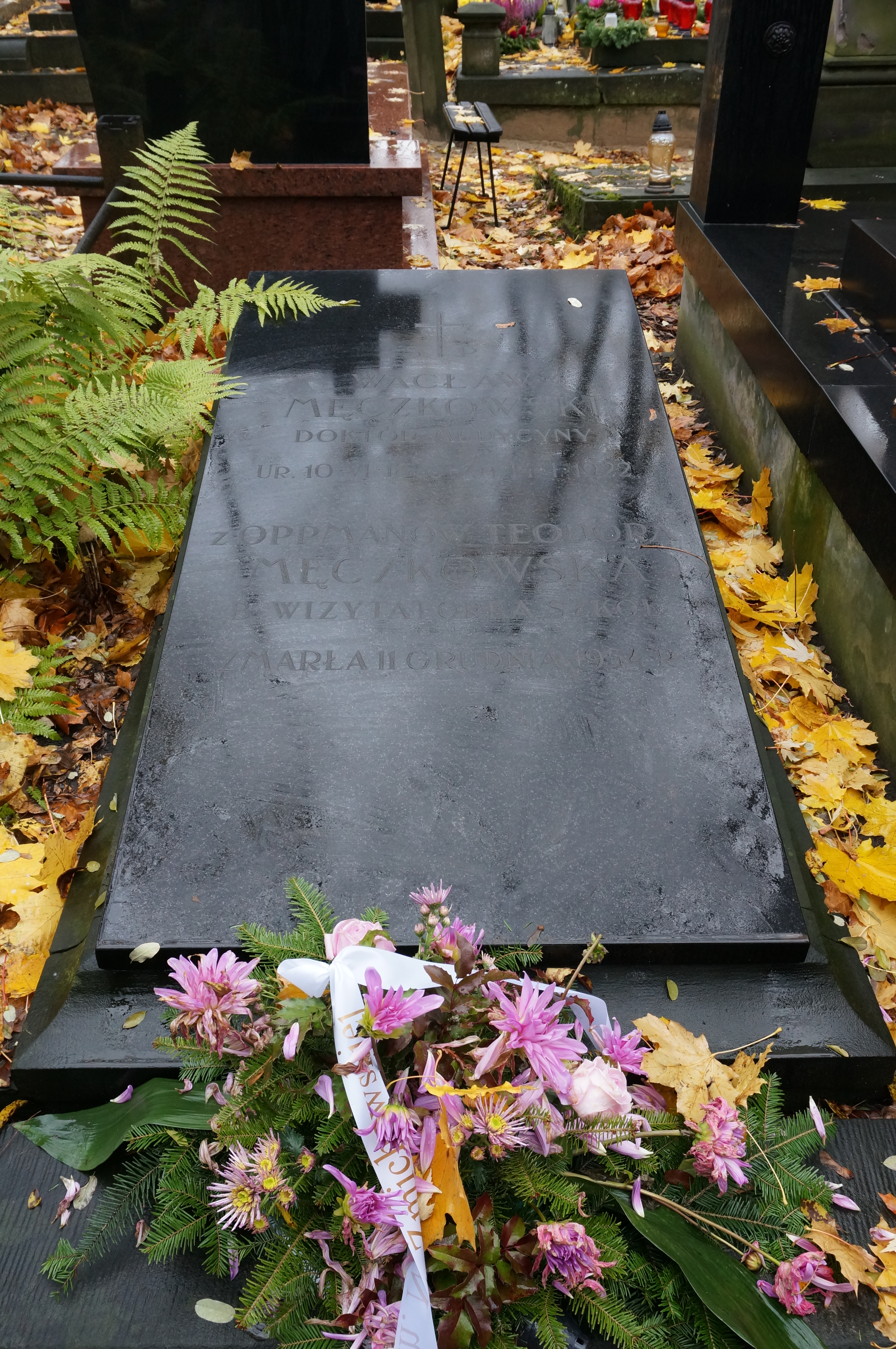 The grave of Wacław Męczkowski at the Powązki Cemetery (section L, row 4, grave 29)